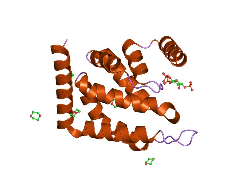 Cartoon representation of the molecular structure of protein registered with 1h0a code.